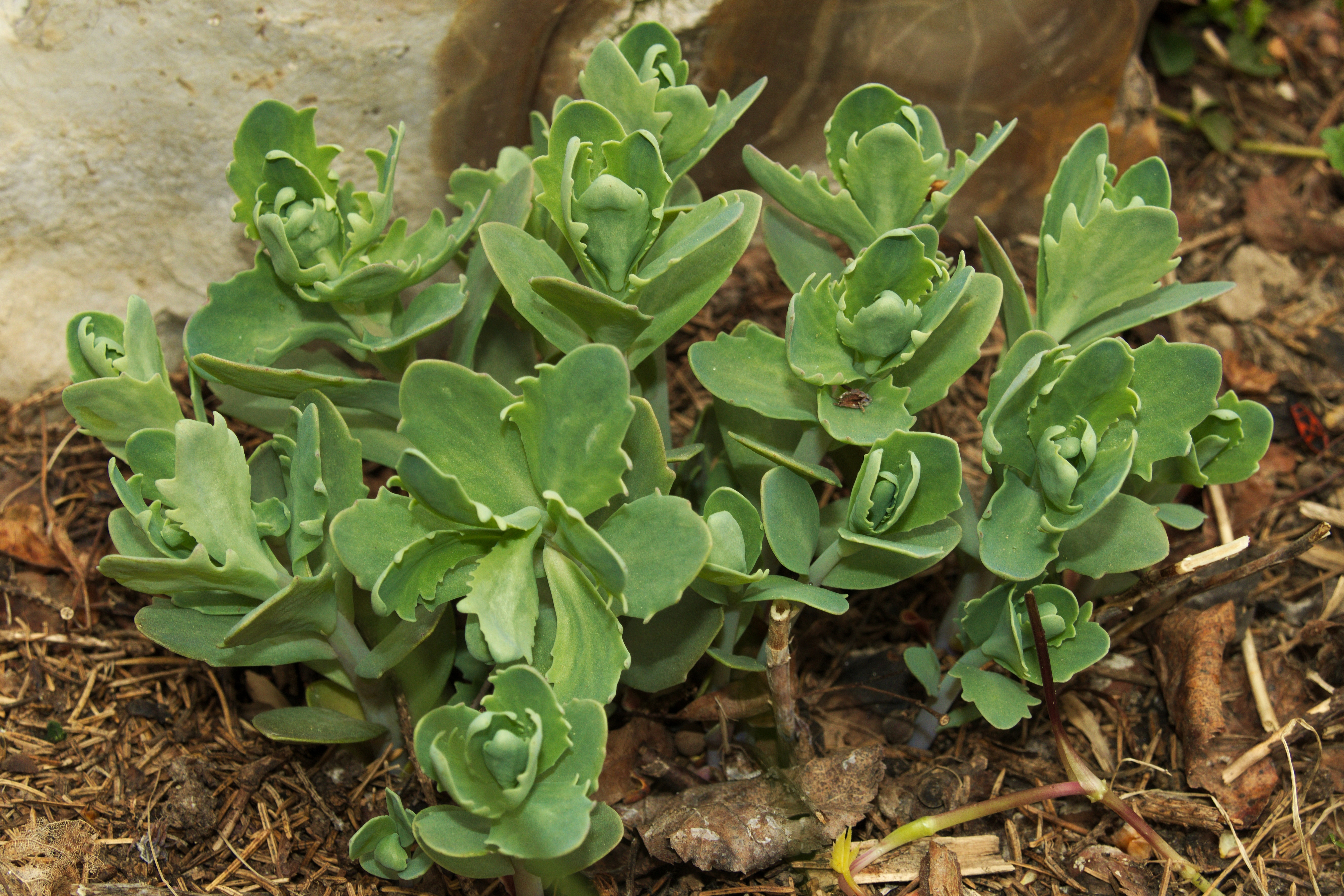 Hylotelephium telephium [syn. Sedum telephium] 'Herbstfreude' Young shoots of Orpine.